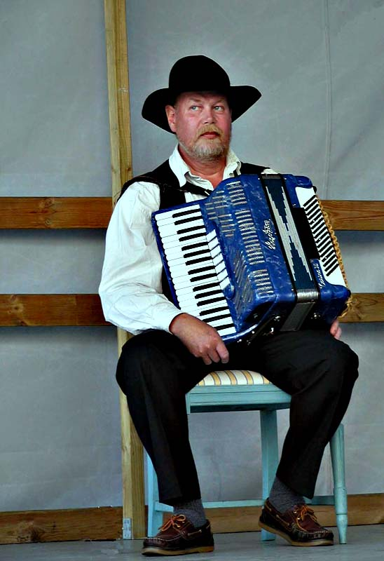 Krister Ulvenhoff on stage.